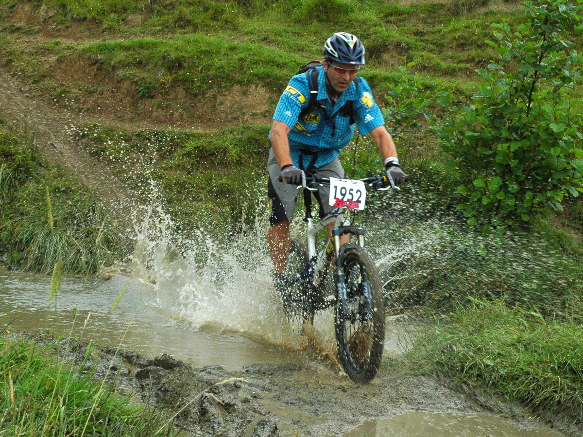 If you are that good you can get away with the shirt.